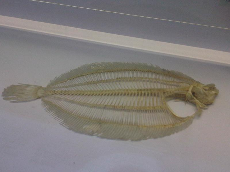 Lemon sole (Microstomus kitt) skeleton at the Natural History Museum in London, England.